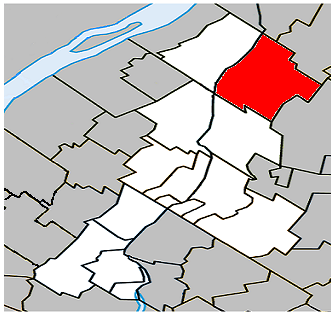 Location of Saint-Denis-sur-Richelieu, Quebec within La Vallée-du-Richelieu Regional County Municipality.